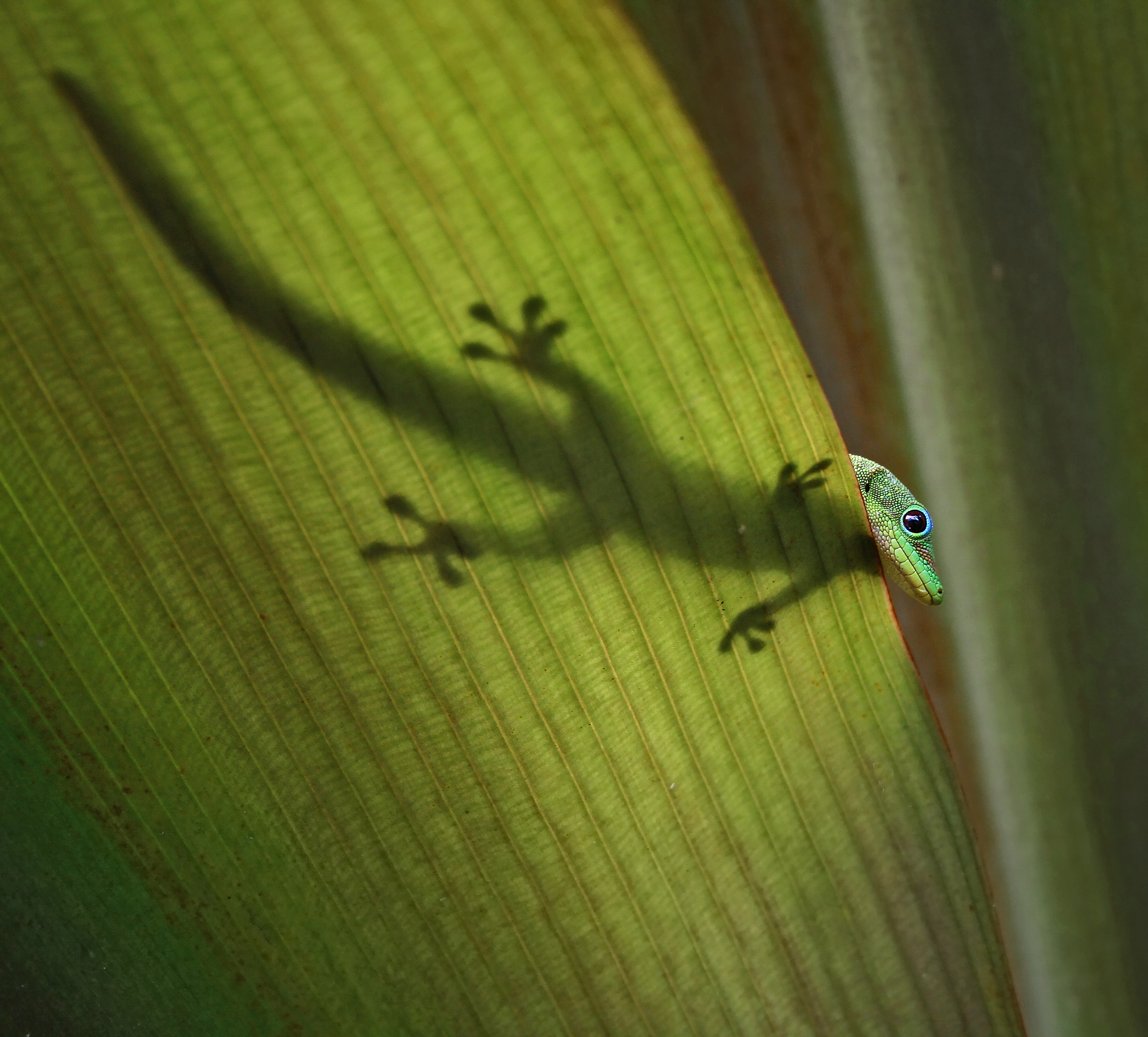 A gold dust day gecko.